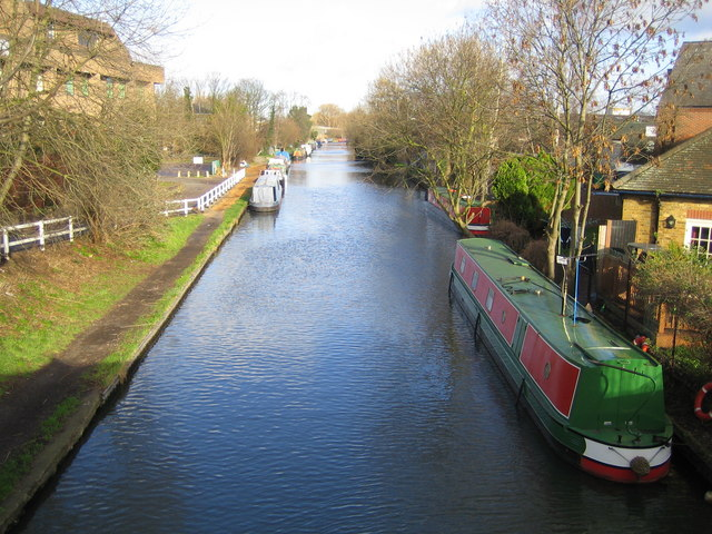 Grand Union Canal in Uxbridge Looking north from the Rockingham Road bridge.